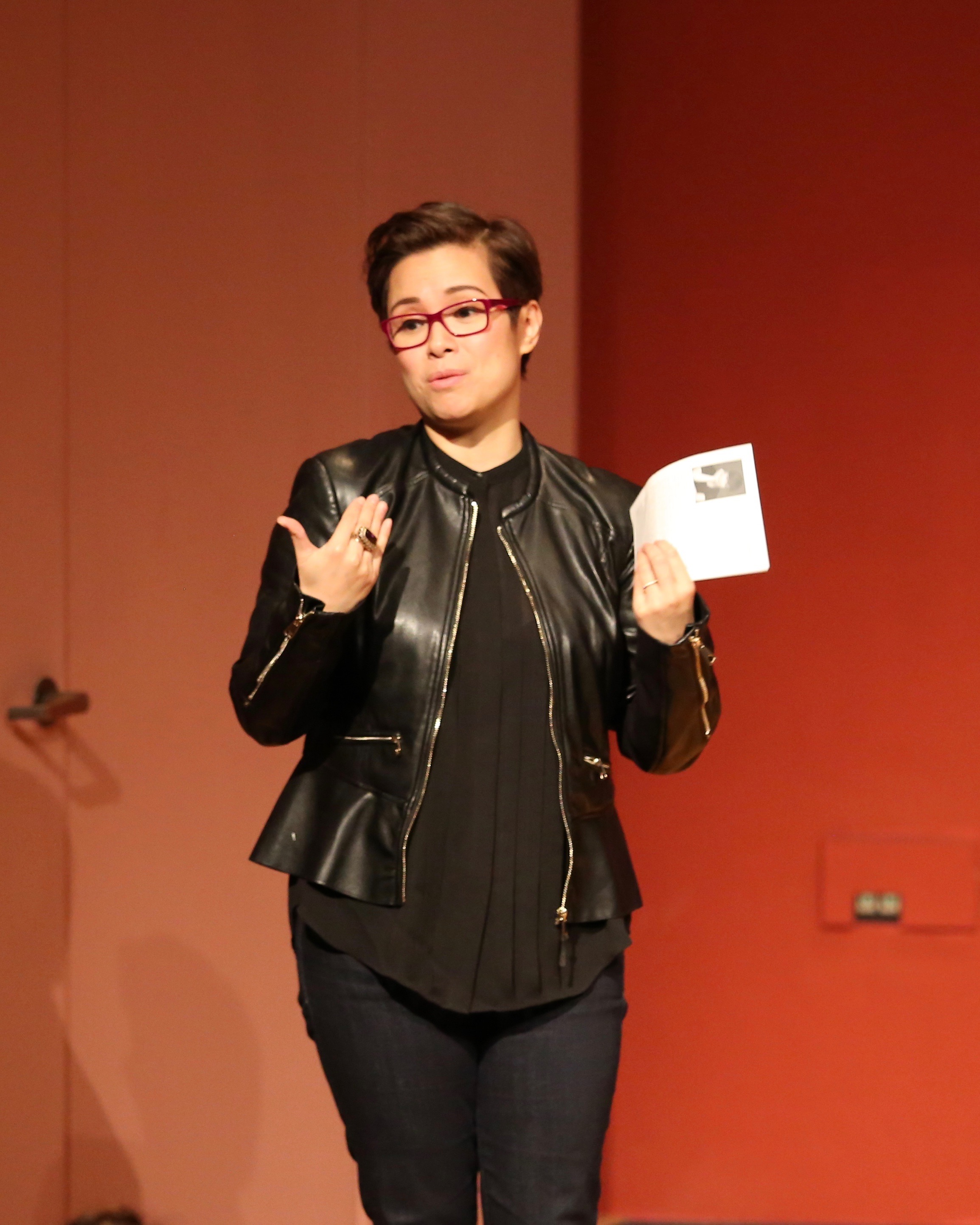 Lea Salonga Master Class, 19 April 2017, Pepperdine University Center for the Arts